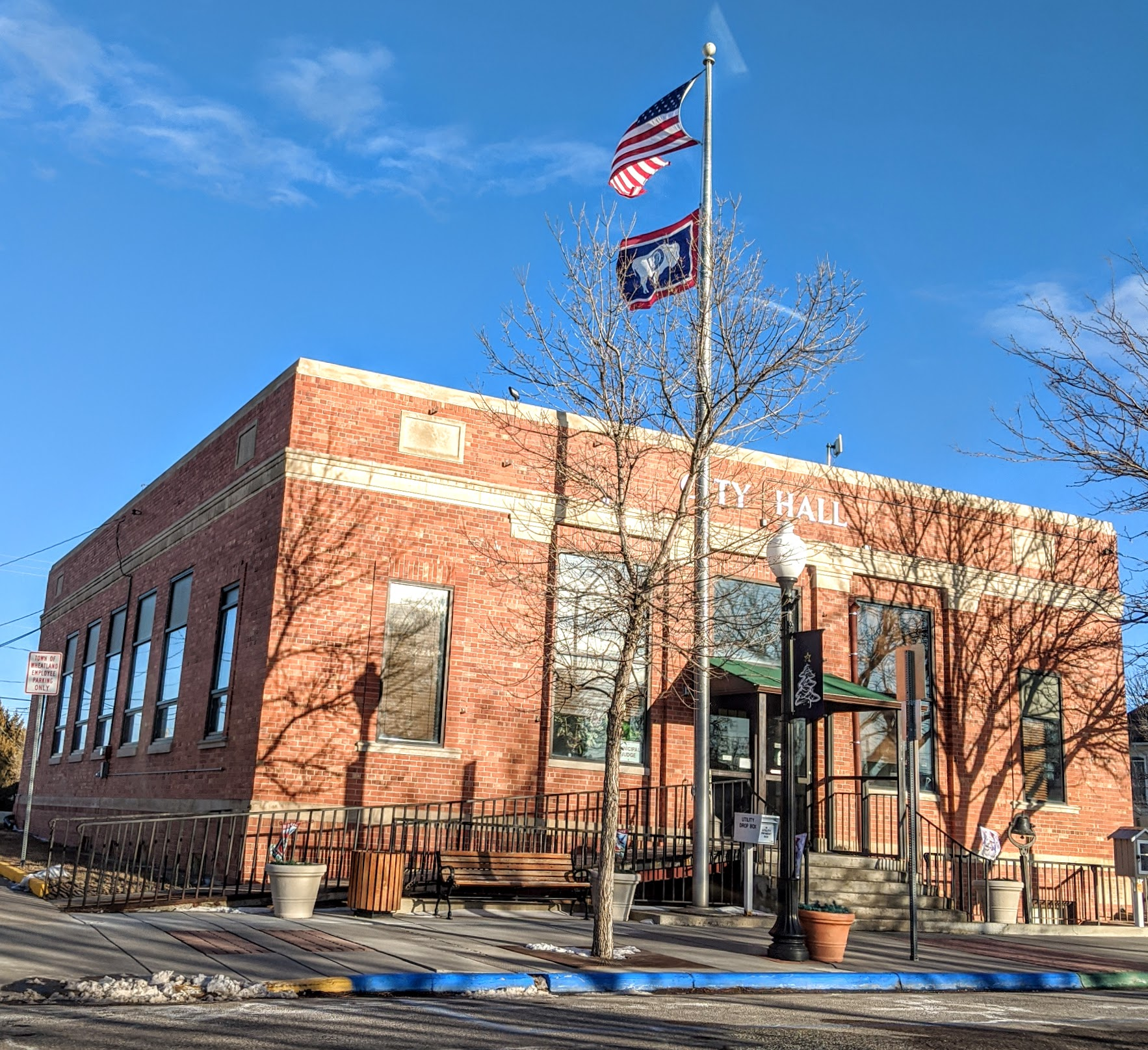 Picture of Wheatland, WY City Hall taken from the street in February 2020